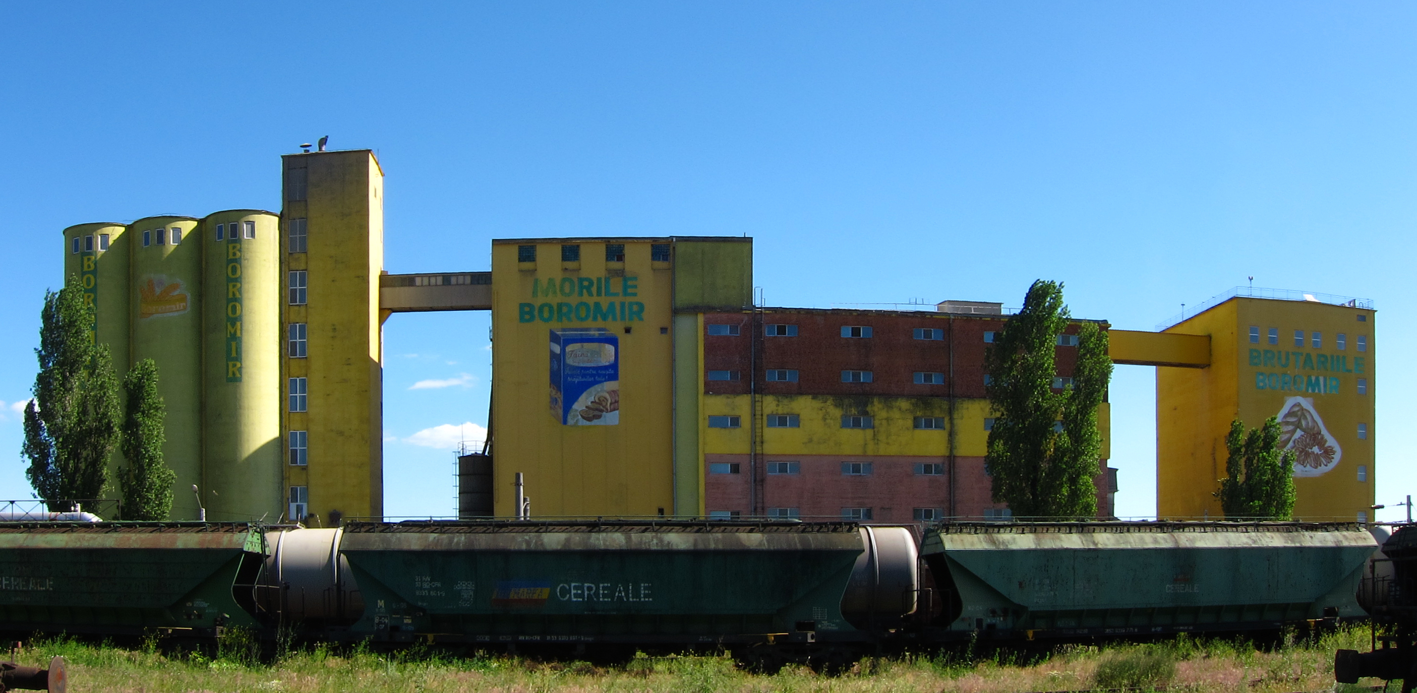 The Boromir Prod industrial bakery in Buzău, Romania